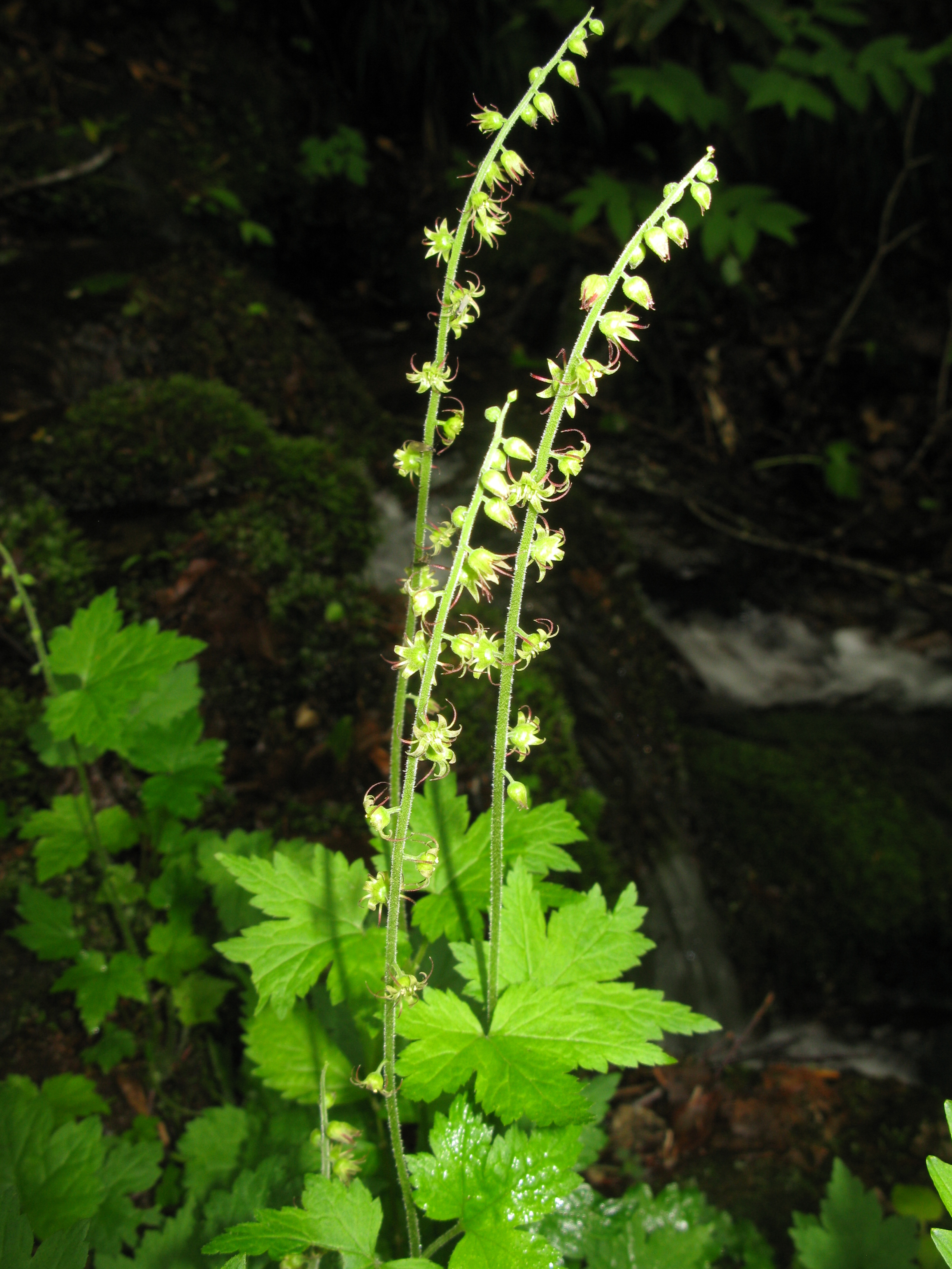 Mitella integripetala, Mount Nishi-Azuma, Fukushima pref., Japan